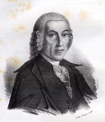 Ignatz Anton Weiser 1701-1785, mayor of Salzburgs, friend of the Mozart family and writer in Bavarian dialect